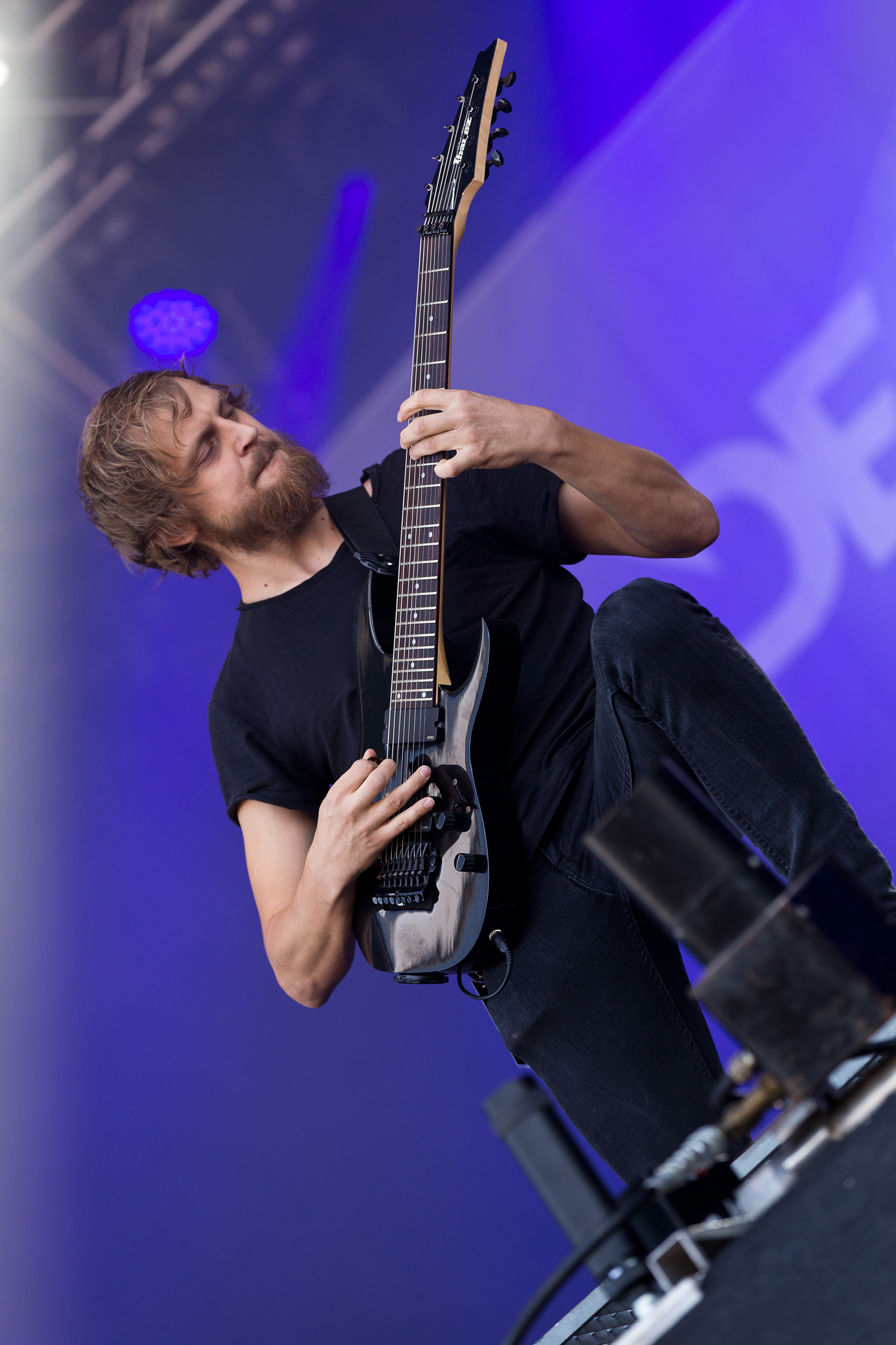 The German melodic death metal band Deadlock at the Rockharz Open Air 2016 in Ballenstedt/Germany.